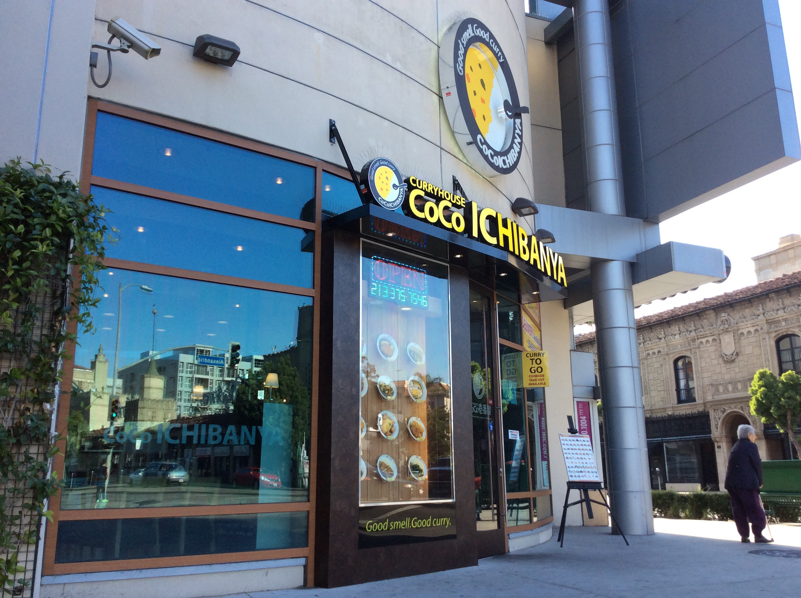 A CoCo Ichibanya Restaurant in Koreatown of Los Angeles, California.